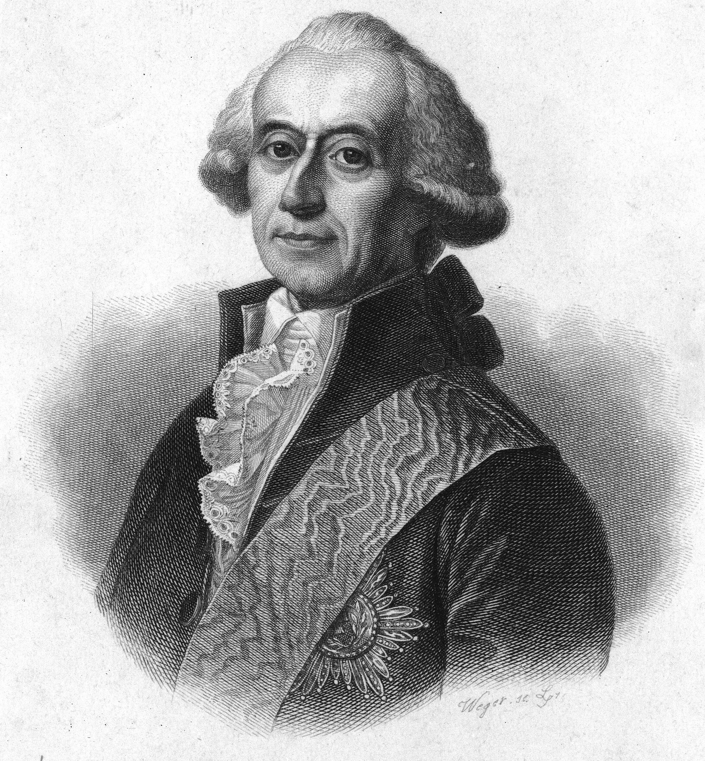 Andreas Peter Bernstorff (1735-1797)